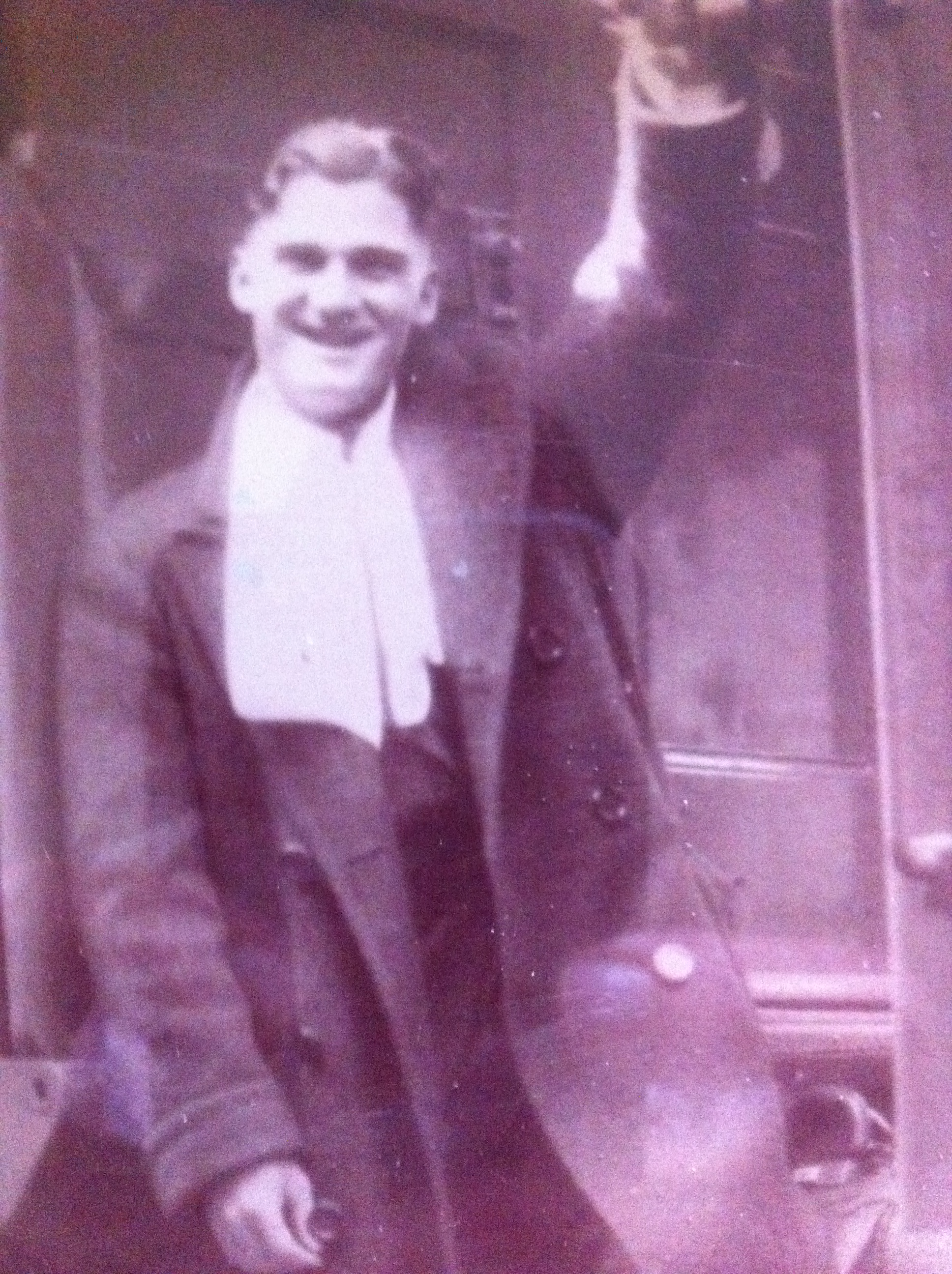 Family Photo